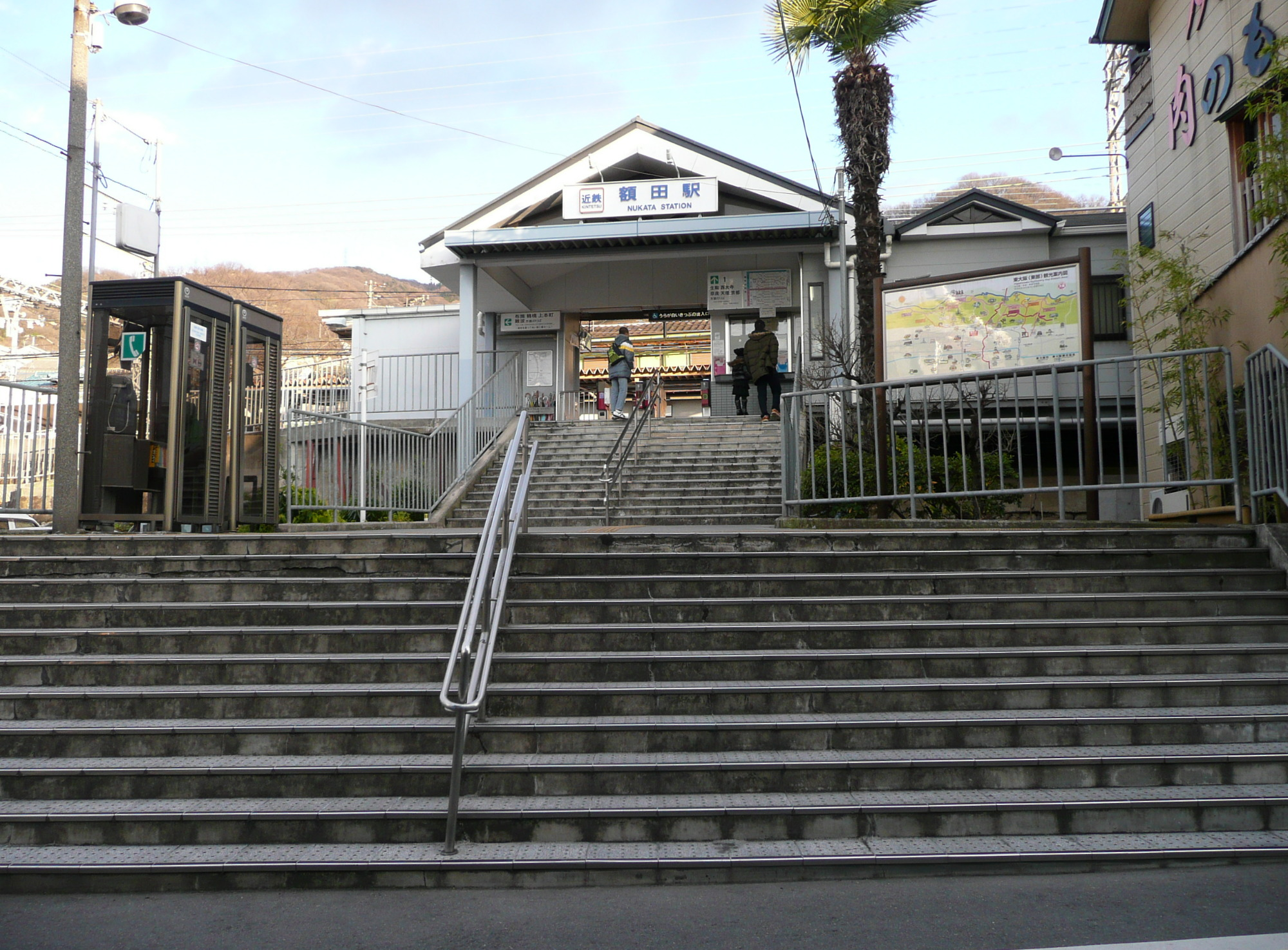 Kinki Nippon Railway,Nara Line,Nukata Station west entrance.